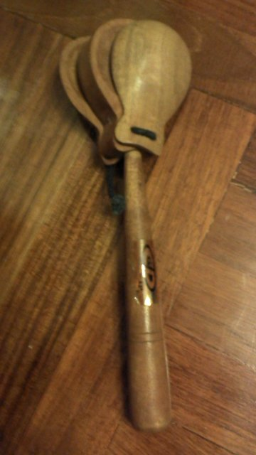 A handle castanets 中文（香港）: 加設有手柄的響板